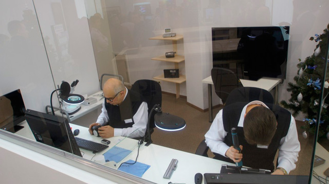 Сервисный Центр в Студии обучения и поддержки Sony